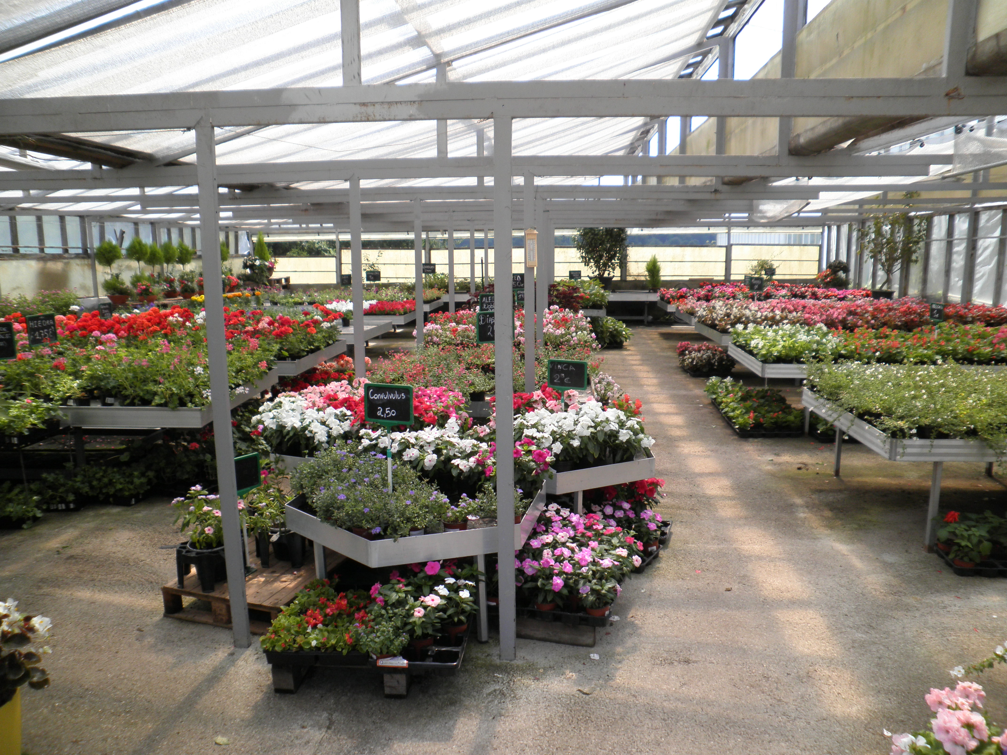 Urtinea garden center. Usurbil, Gipuzkoa, Basque Country.